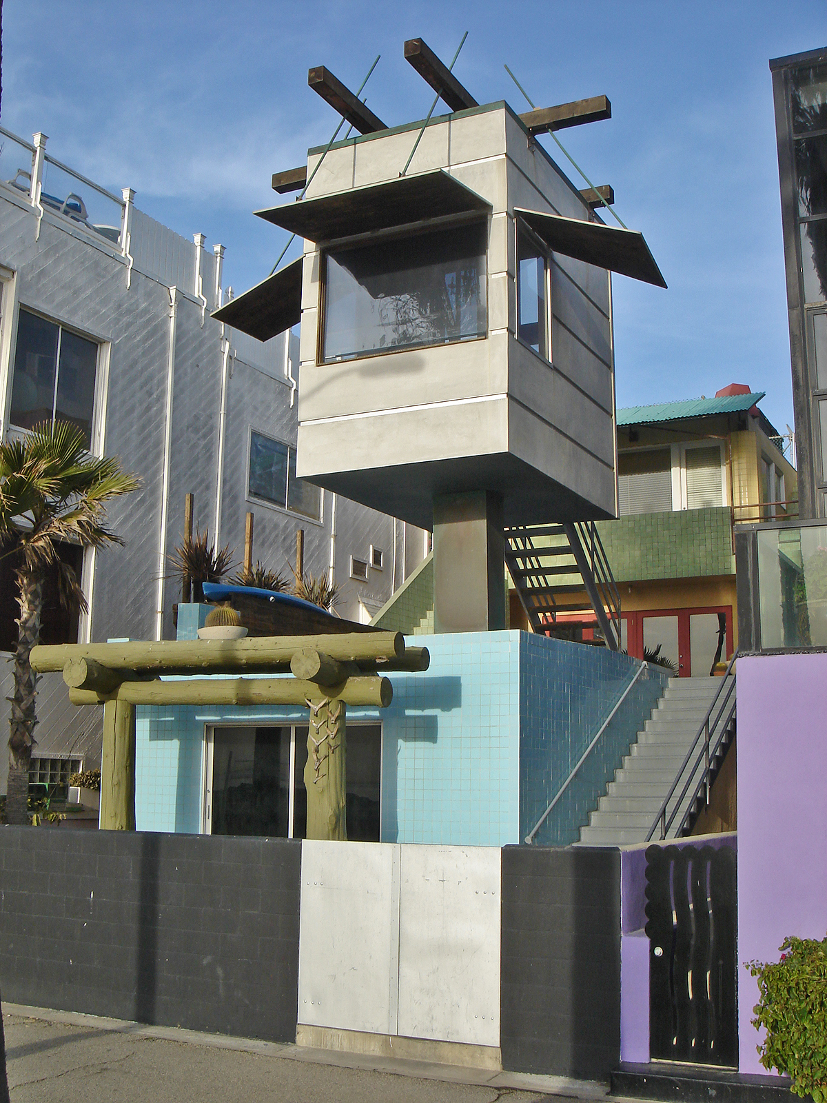 Here's the house.